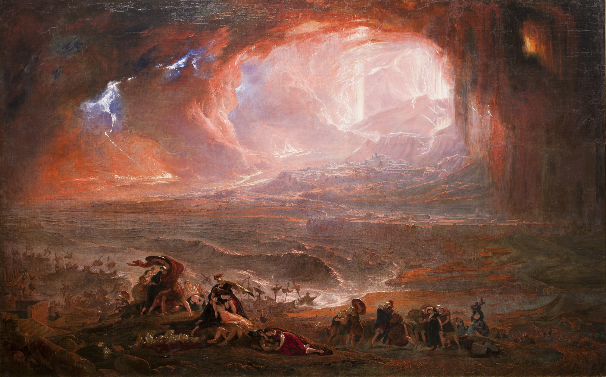 The restored version of John Martin's Destruction of Pompeii and Herculaneum